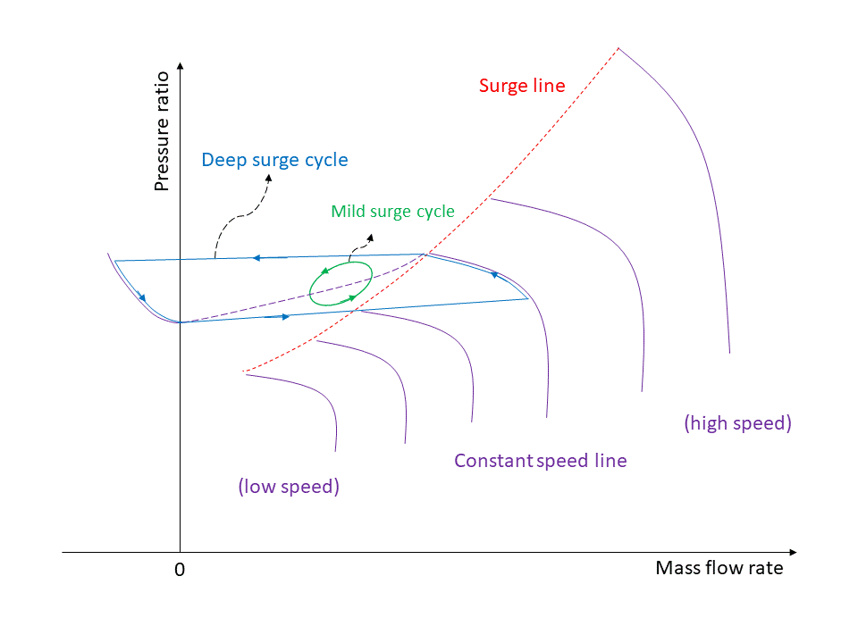 This is a sketch of a typical compressor performance map which includes constant speed lines and a surge line. Two cycles are drawn on the map to illustrate compressor deep surge and compressor mild surge.